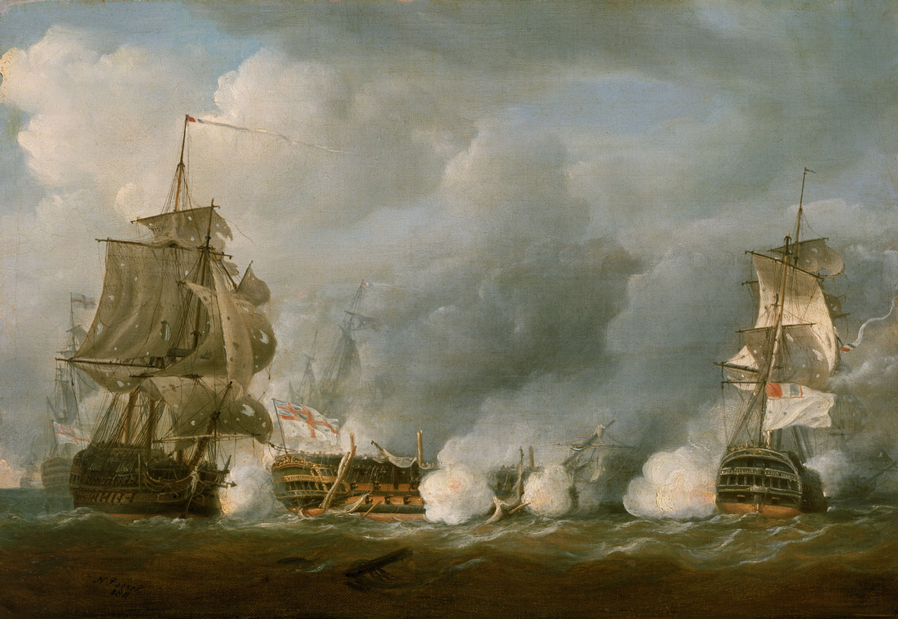 The 74-gun HMS Defence at the Glorious First of June, dismasted and damaged, taking raking fire from the French 74-gun Tourville, while exchanging fire with the 74-gun Mucius Scævola stationned before her to her right side.